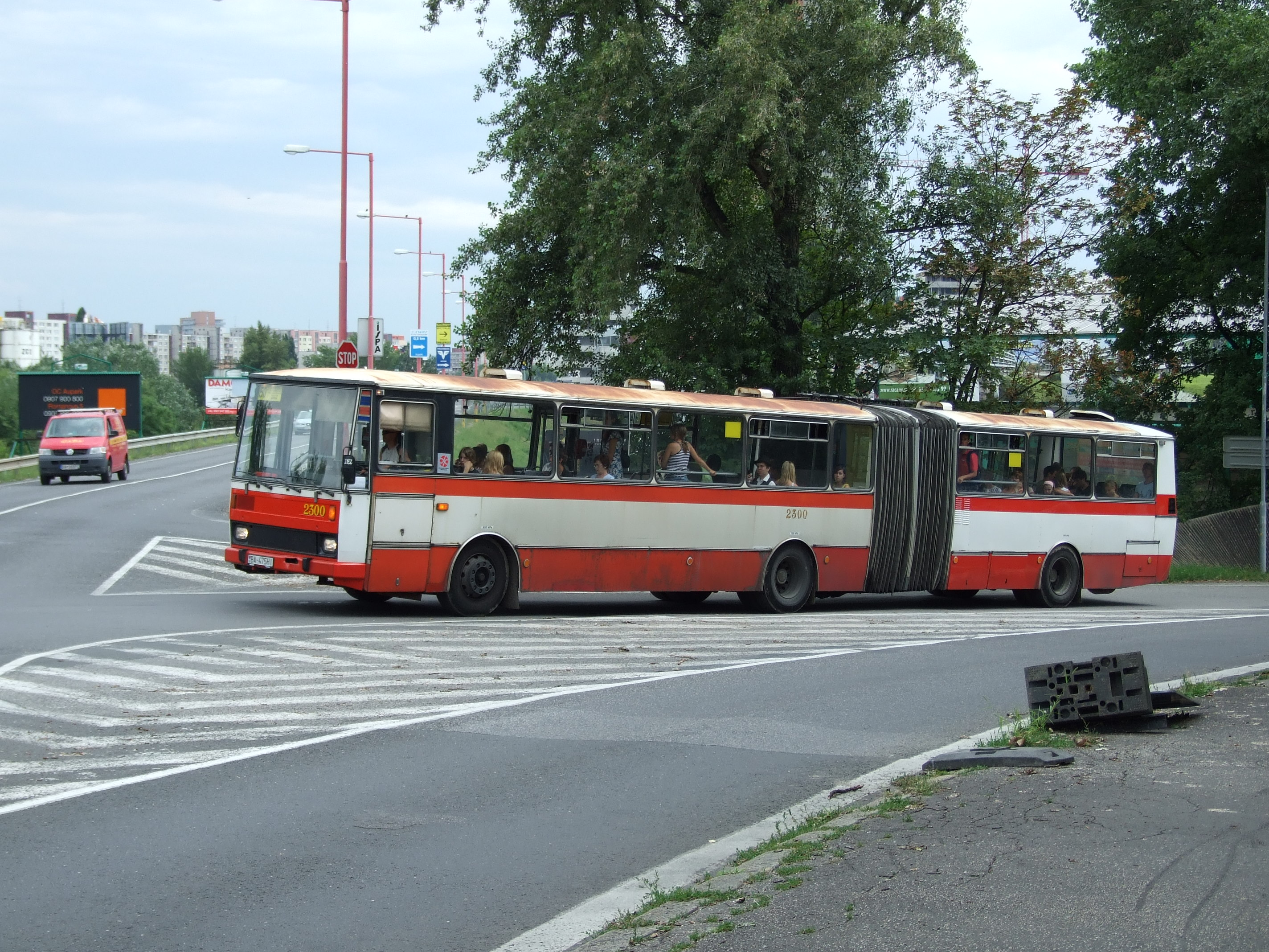 Public transport bus in Bratislava, SK